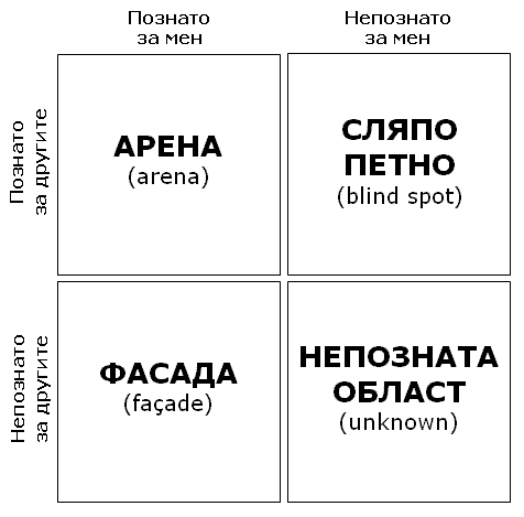 Johari window with inscriptions in Bulgarian